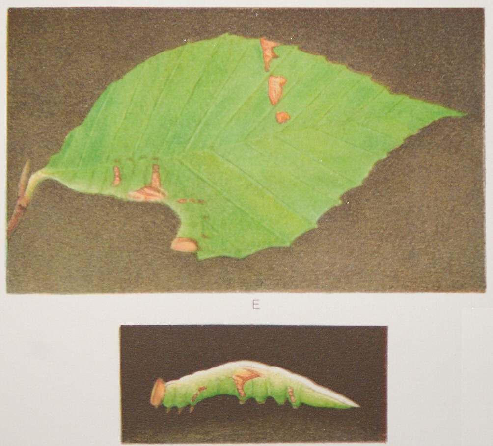 Larger-spotted beech-leaf-edge caterpillar - painting in Concealing-Coloration in the Animal Kingdom, 1909Wavy-Lined Heterocampa caterpillar (Heterocampa biundata).